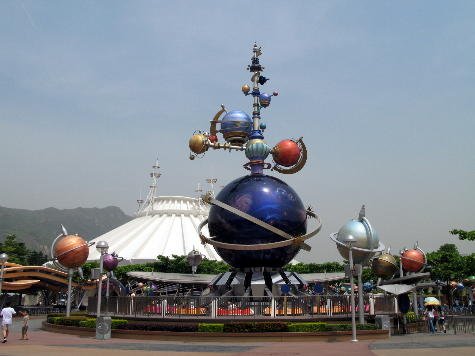 HKDL Tomorrowland Orbitron